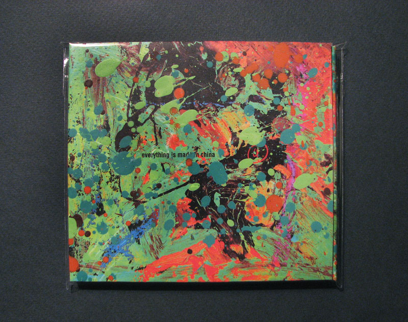 Photo of cover of Everything is made in China album "4" (2008)